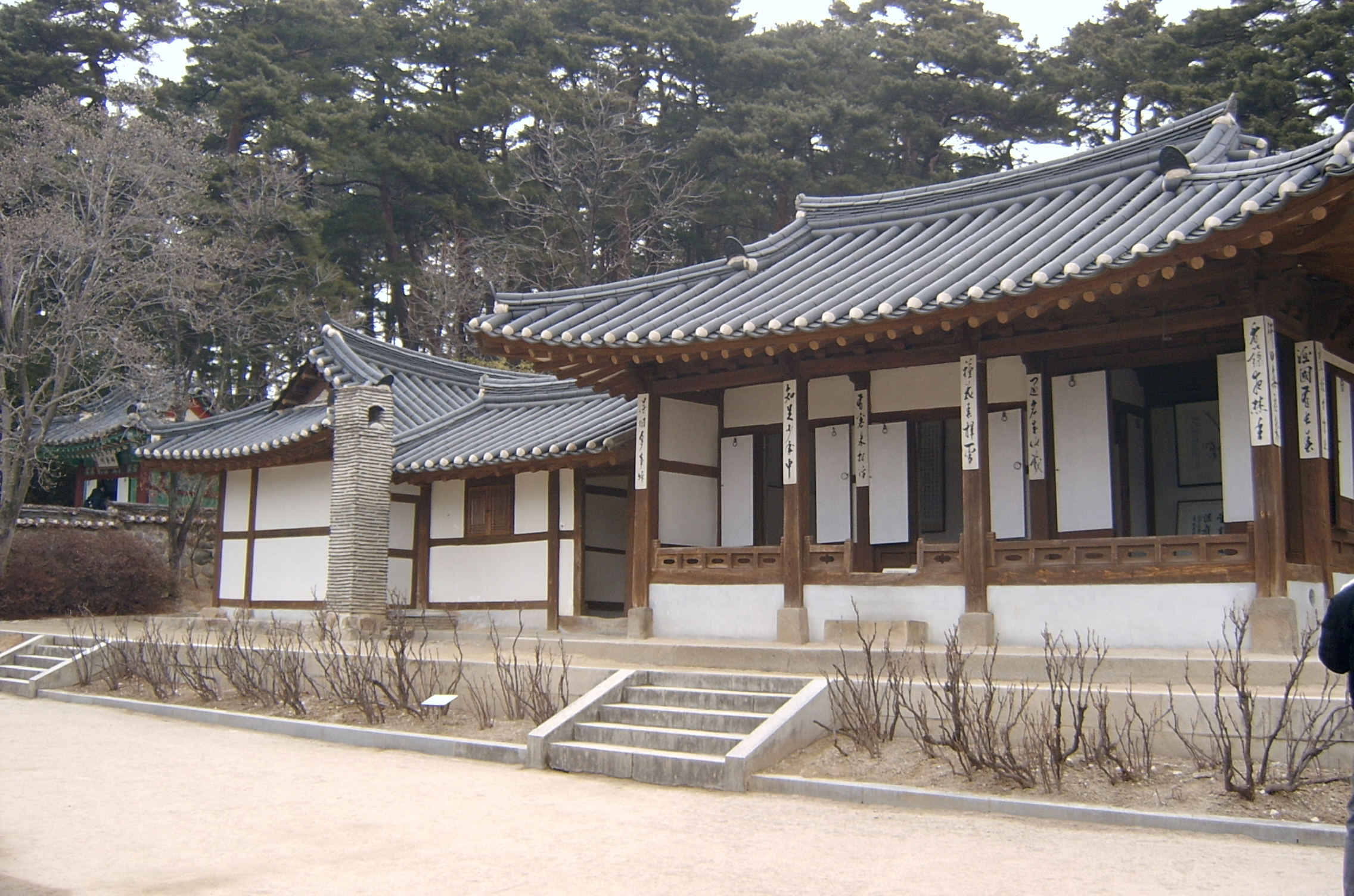 The picture was taken by Klaus314.